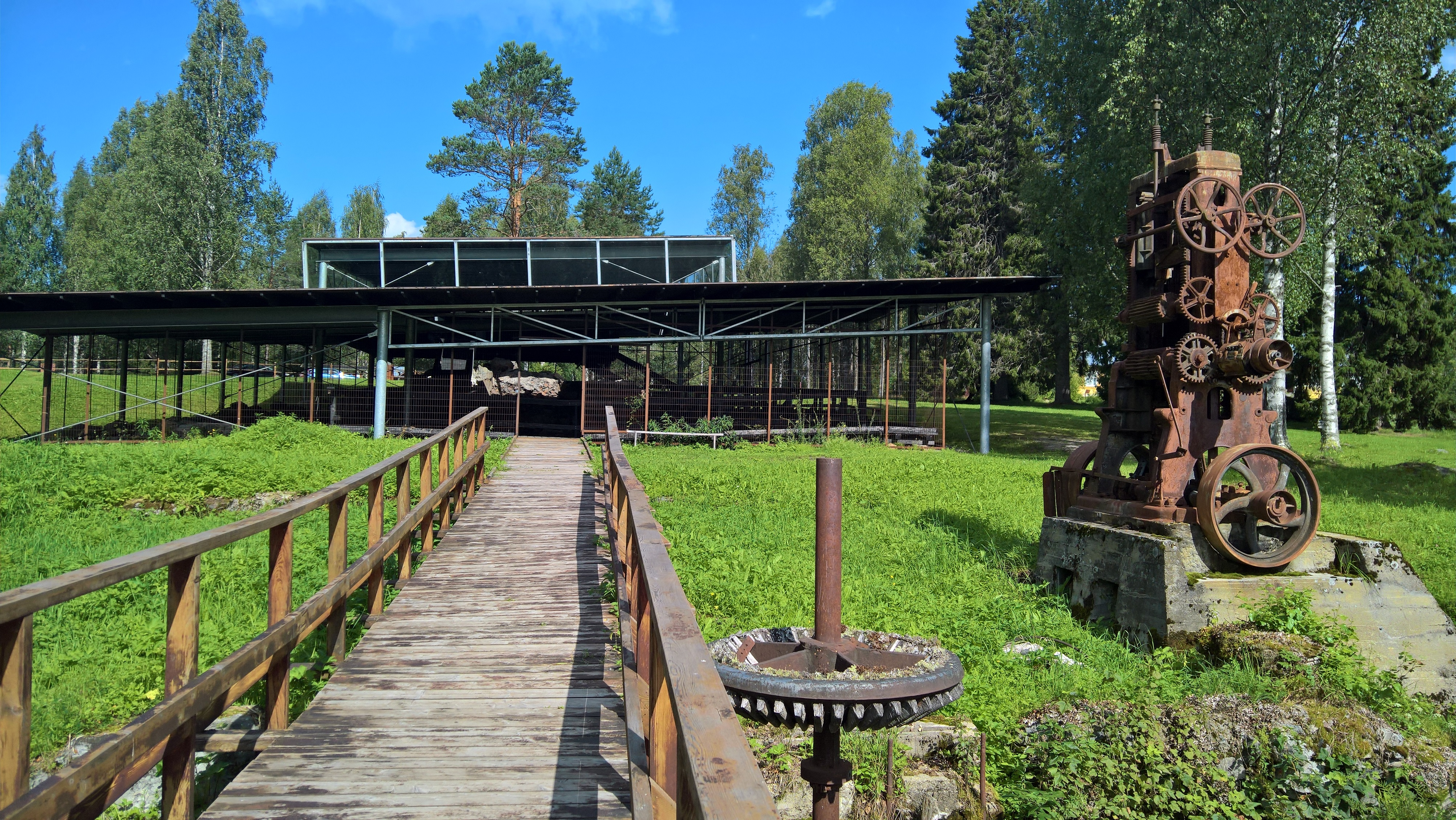 Möhkö ironworks museum 2016